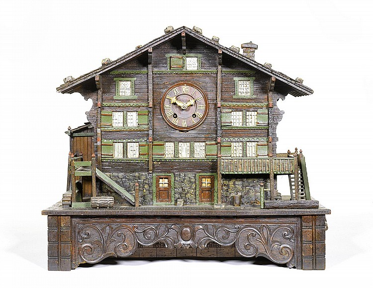 Swiss cuckoo clock in the shape of a Brienz chalet. Brienz (Switzerland, ca. 1900). Carved and painted wood. The movement with anchor escapement and cuckoo. Music box with eight melodies in the base. Dimensions: 52x32x54 cm.